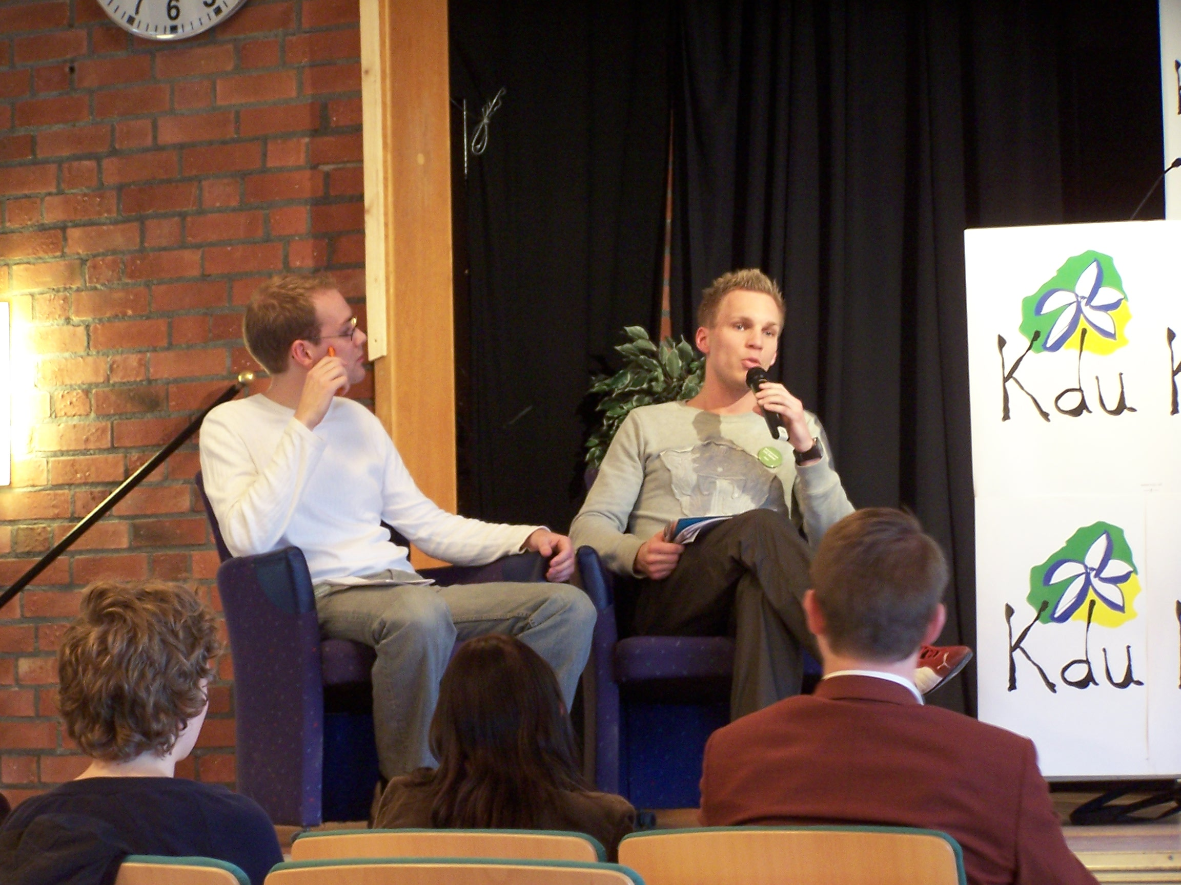 Andreas Olofsson and Erik Slottner ansering questions before the election of new leader for the Swedish Christian Democratic Youth's organisation "Kristdemokratiska Ungdomsförbundet", Blackebergs gymnasium (high school).